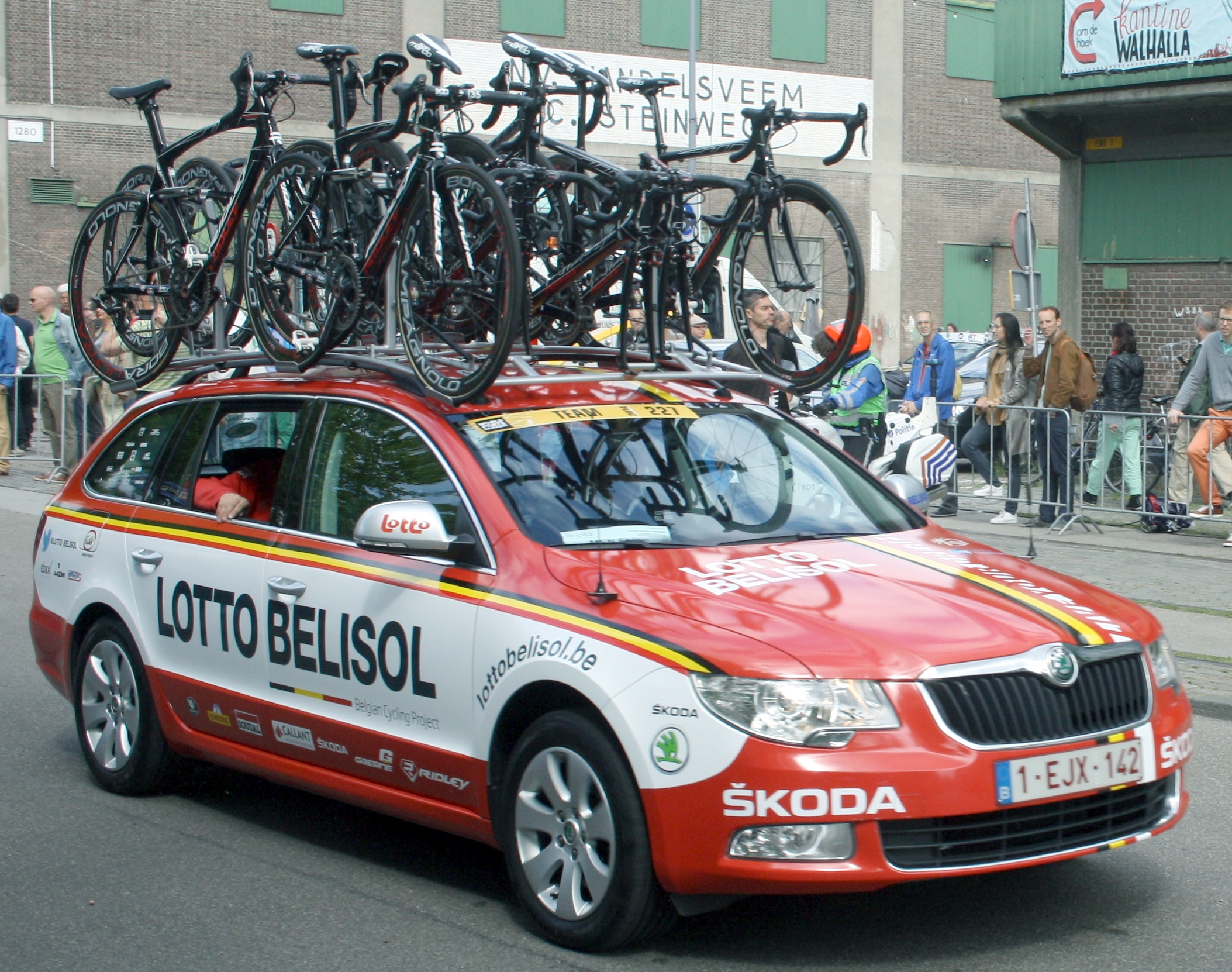 Lotto Belisol car at the start of the World Ports Classic 2014 in Rotterdam